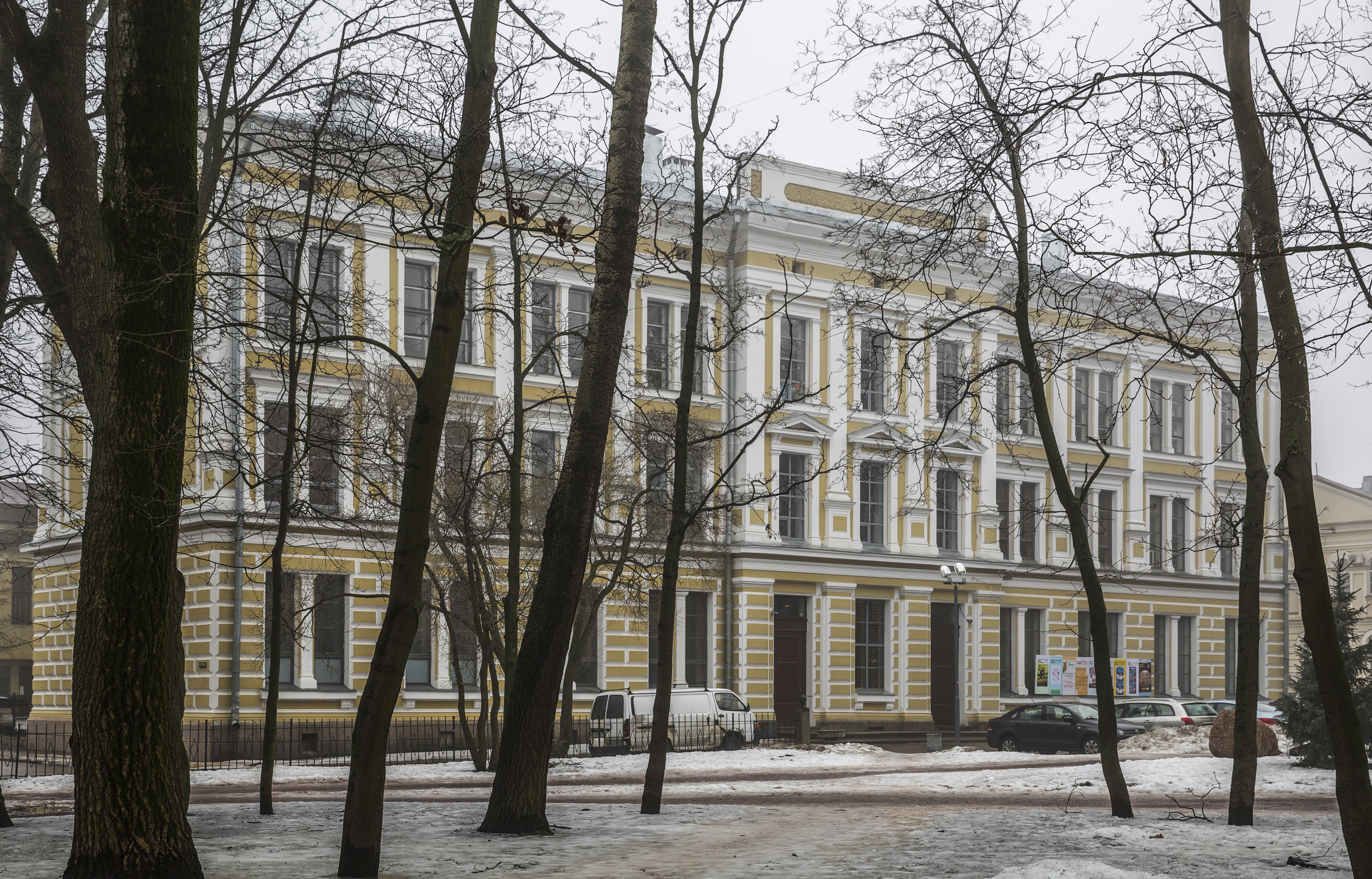 Vyborg Elementary School before 1944, architect Frans Anatolius Sjöström